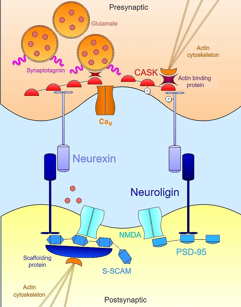 Neurexin-Neuroligin interactions promote synapse stabilization. On the presynaptic side, neurexin also associates with synaptotagmin and calcium channels, essential components of presynaptic function. Neurexin is also capable of binding to CASK (calcium-calmodulin dependent serine kinase) as well as components of the actin cytoskeleton. On the post-synaptic side, neuroligin interacts with scaffolding proteins that help cluster receptor channels. At glutamatergic synapses, neuroligin's PDZ domain binds to PSD95 which is also associated with NMDA receptors. At GABA-ergic synapses, neuroligin's PDZ domain binds to gephyrin and is also responsible for collybistin activation.